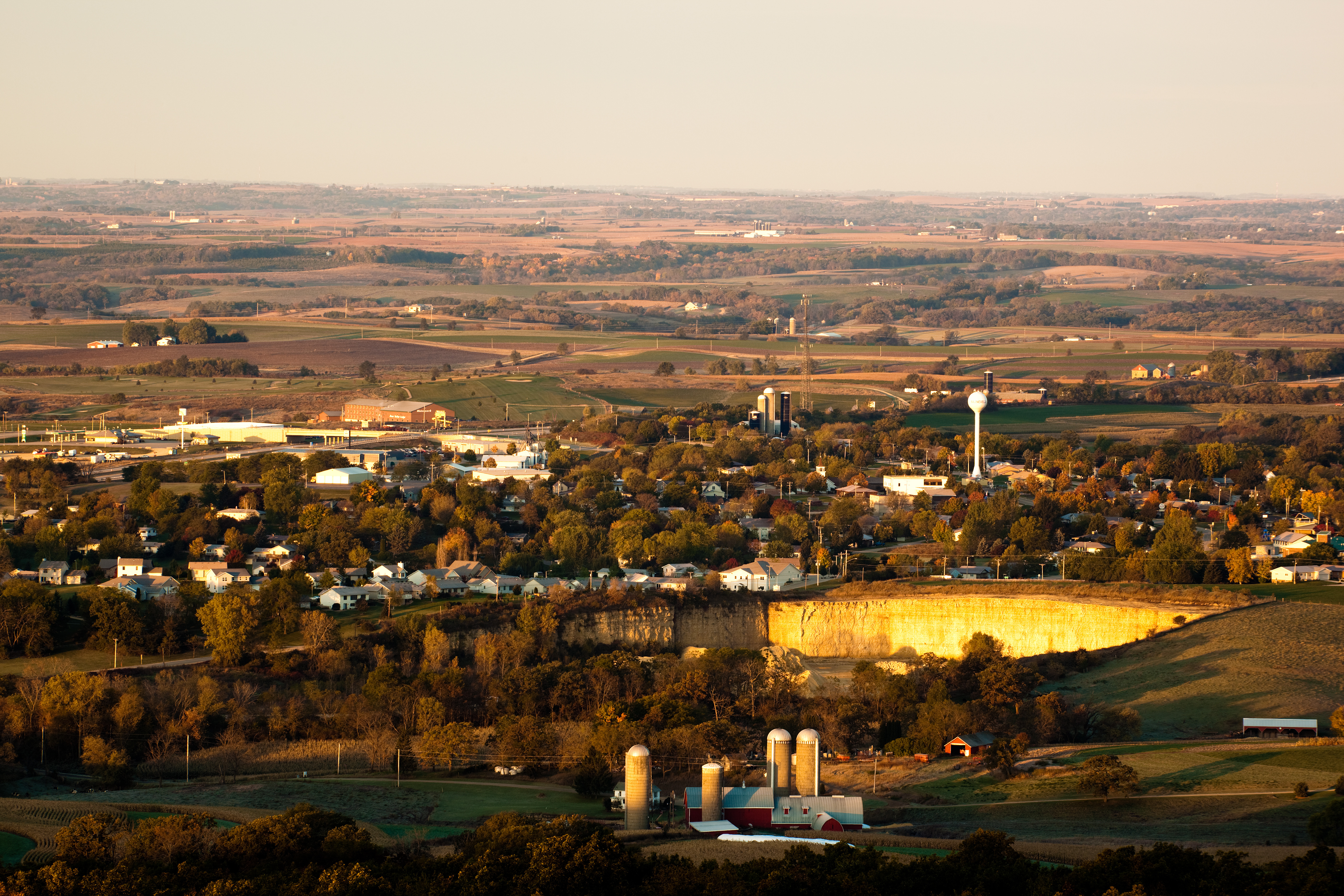 Barneveld, as seen from the western observation tower at Blue Mound State Park.